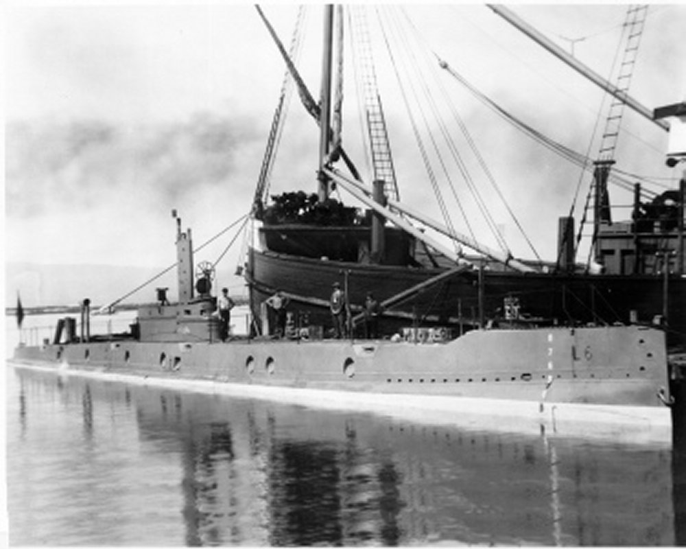 United States Navy submarine , possibly at the California Shipbuilding Company at Long Beach, California.